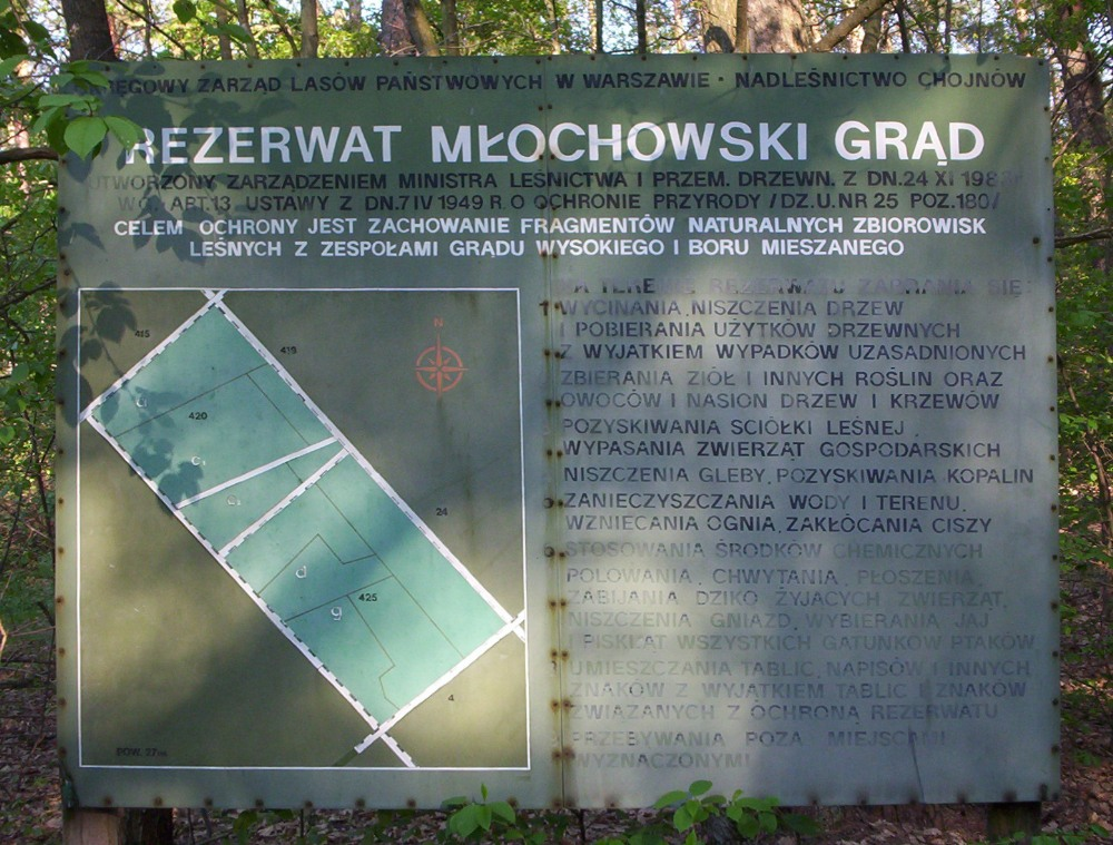 Information tablet - Nature reserve Młochowski Grąd, Poland.